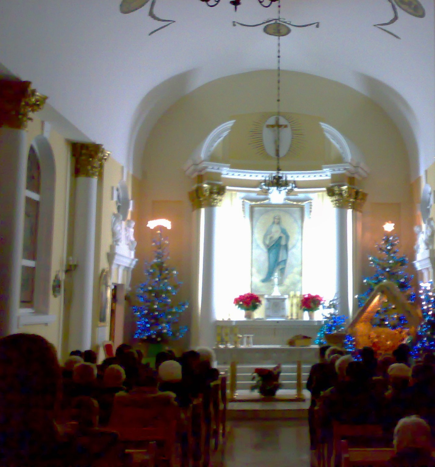 House of Social Security - Poznan, Gorczyn, Sielska Street (Chapel).